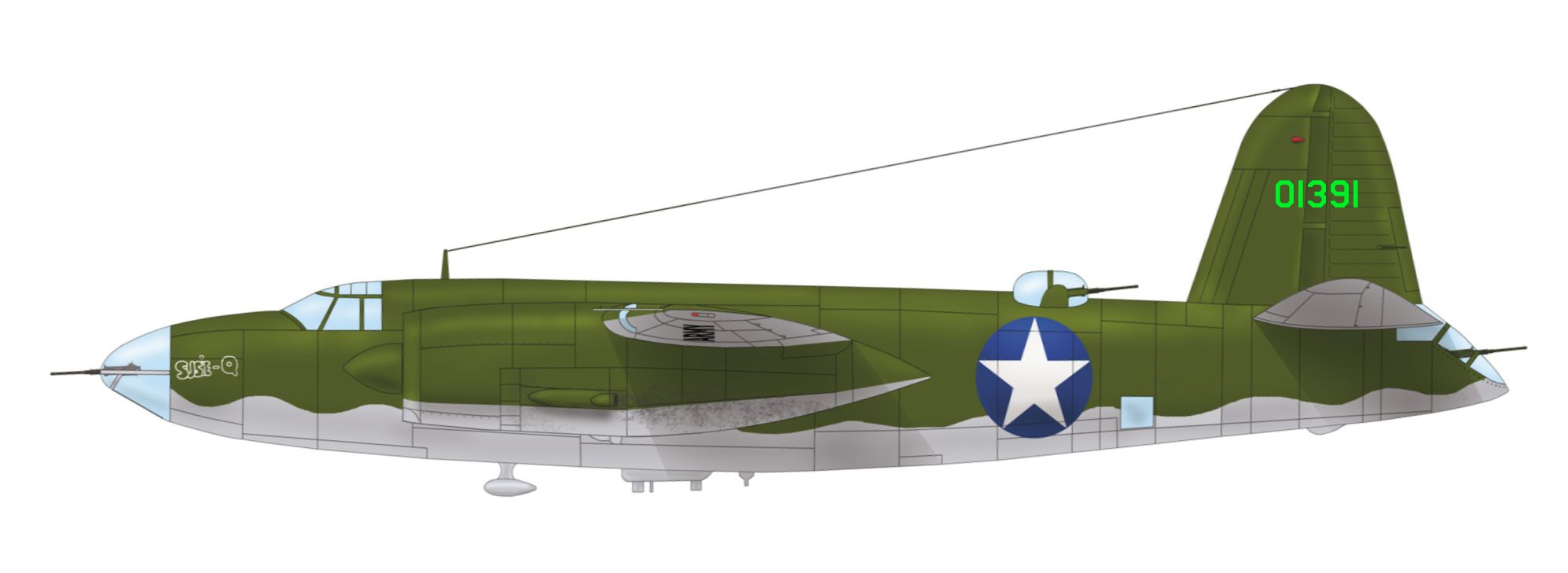 Drawing of the Martin B-26-MA Marauder (s/n 40-1391) "Susie-Q" of the 18th Reconnaissance Squadron, 22nd Bombardment Group, USAAF, that was flown by 1/Lt James Perry Muri during the Battle of Midway on 4 June 1942. It received over 500 bullet holes and was written off after landing at Midway. The nose art with "Susie-Q" was cut out of the nose and kept as a souvenir. The rest of the B-26 was bulldozed into a barge and dumped into the lagoon off Midway. Note: This drawing shows 40-1436 of the 22nd Bomb Group that was scrapped in Brisbane in January 1944. The serial number was normally painted on the tail.